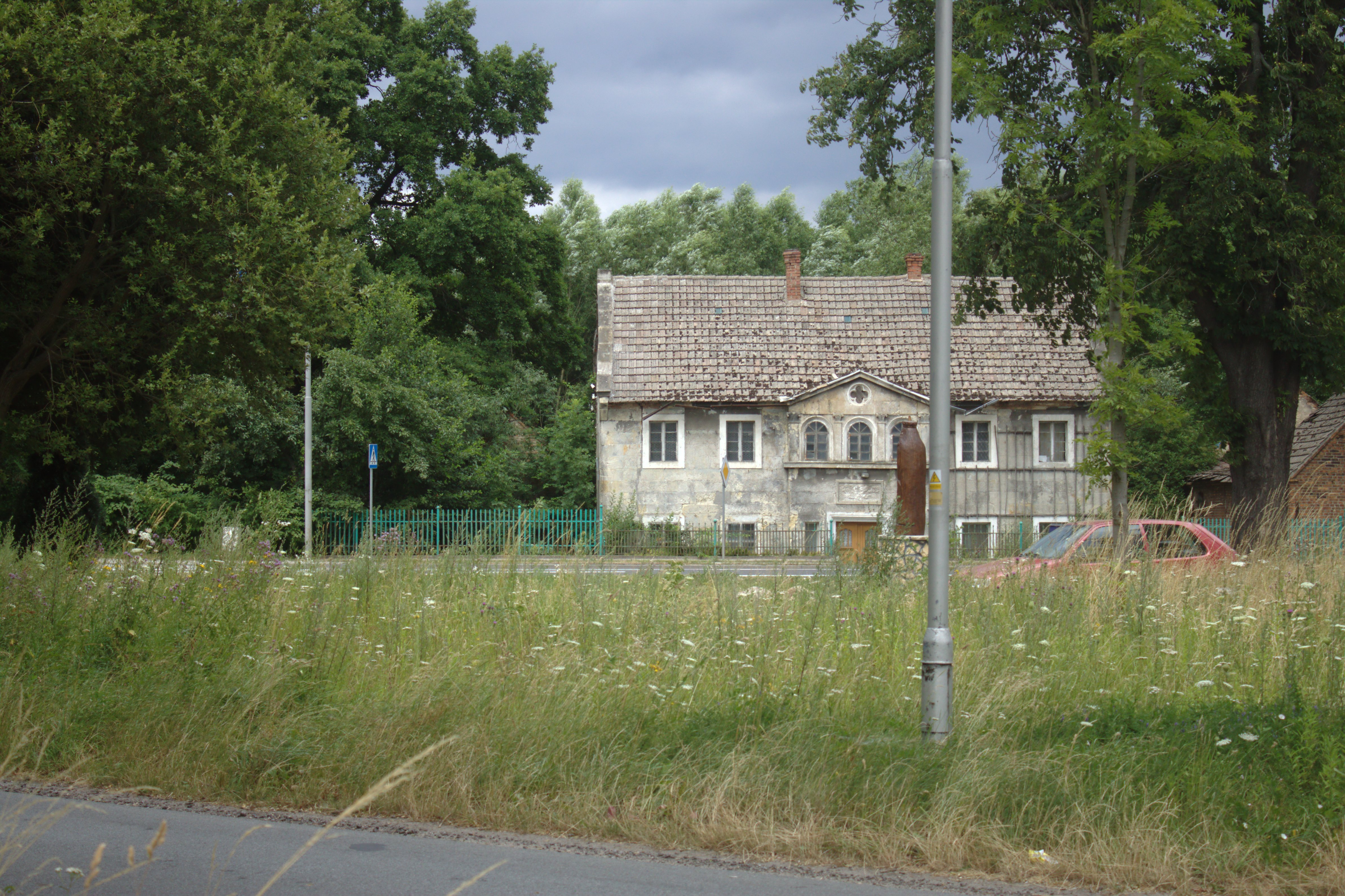 This photograph was created as a part of Wikiexpedition Lower Silesia, a project supported by Wikimedia Poland grant.